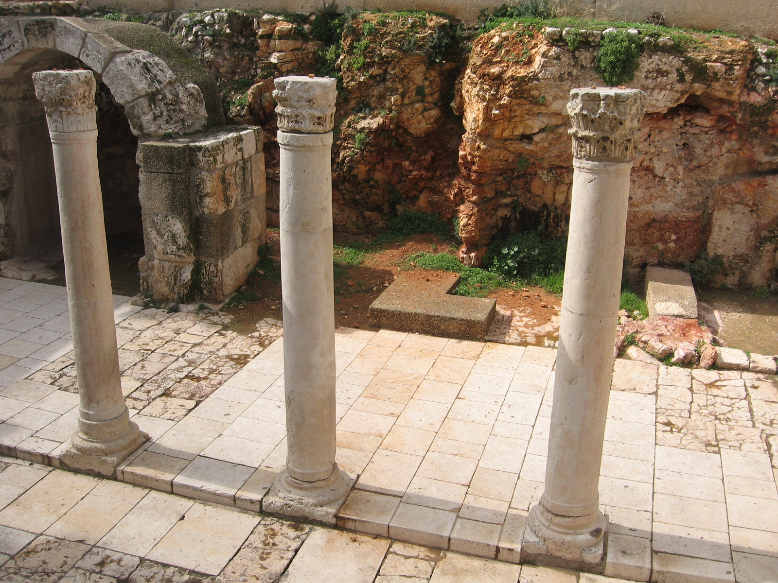 Cardo of Jerusalem